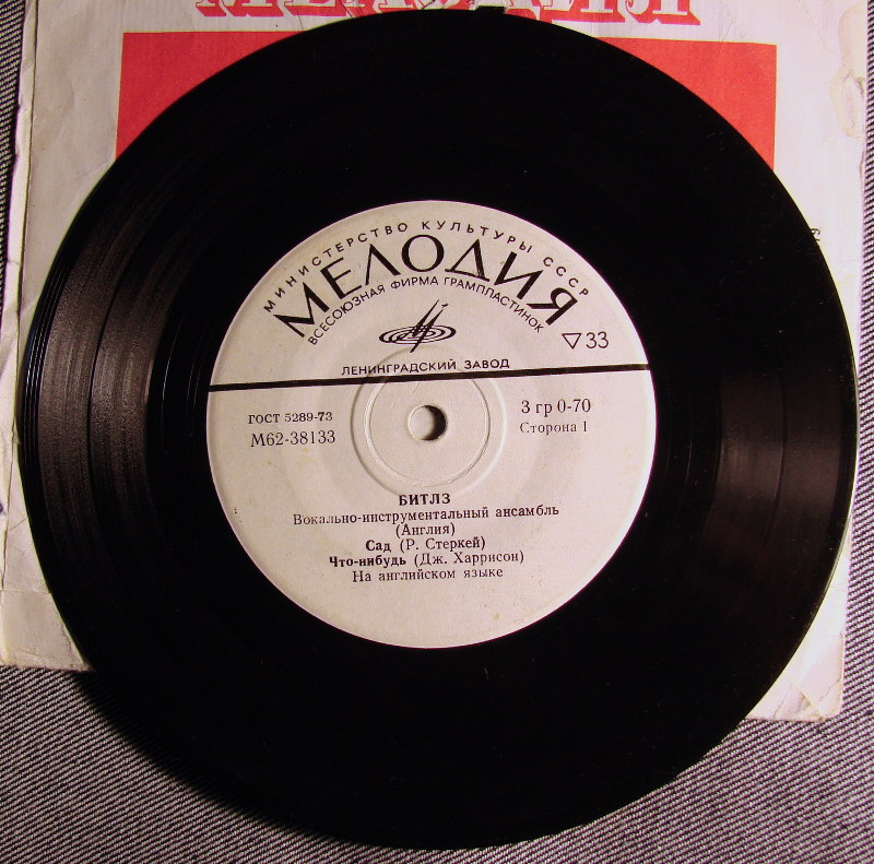 A-side of the Soviet vinyl single by The Beatles. A-side: "Octopus's Garden" and "Something" from "Abbey Road" (1969). B-side: "Come Together". Released by Soviet monopoly label "Melodiya". The song titles are translated in Russian, the band name is written in Cyrillic (БИТЛЗ). It was one of the few official releases of Western rock music in the USSR.